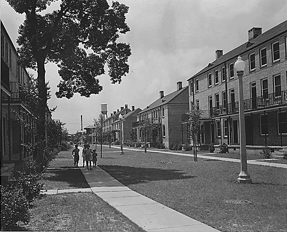 St. Thomas Housing Projects, New Orleans, when new. This is contrasted as an "after" photograph with the neighborhood before the Projects shown in Image:StThomasStreetBeforeFDR.jpg